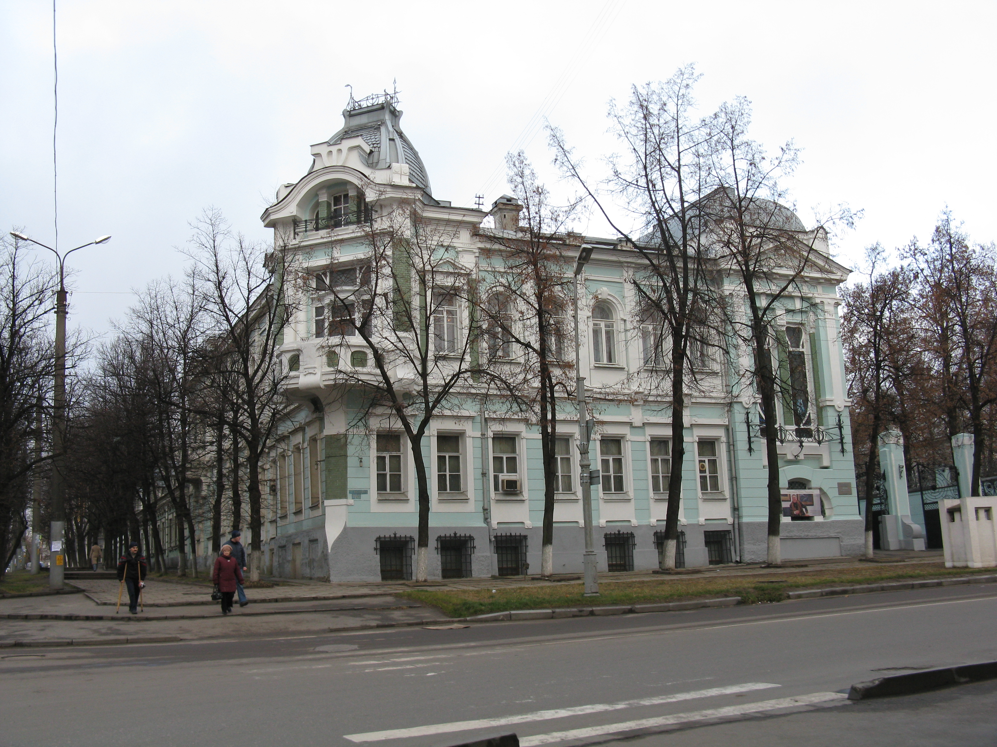 Museum in Ivanovo, Ivanovo Oblast, west-central Russia.